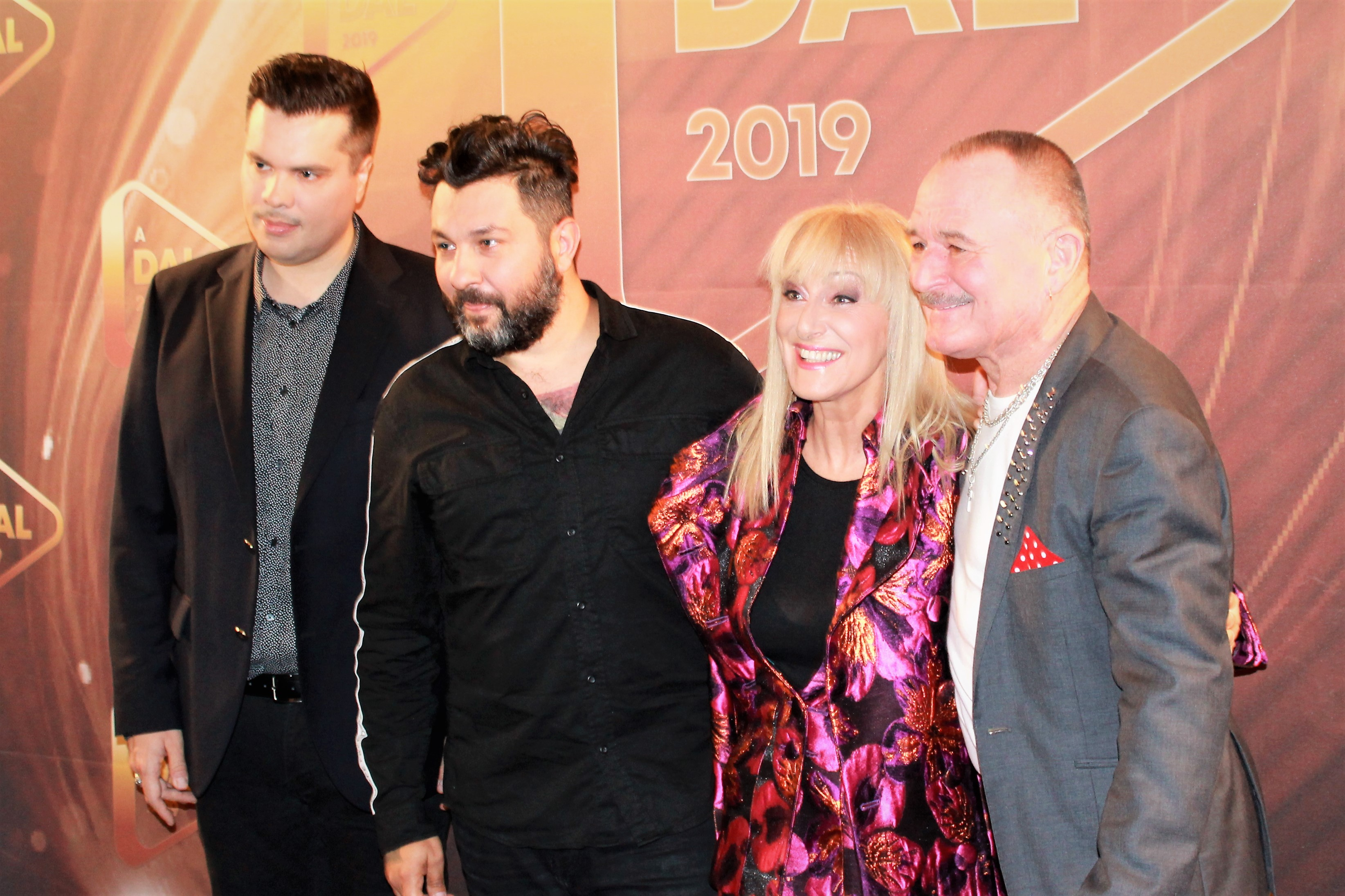 The jury of A Dal 2019 (from left to right: Miklós Both, Misi Mező, Lilla Vincze, Feró Nagy)